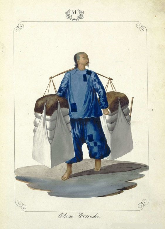 "Chino Corredor" Tipos del País (19th Century Watercolor) by José Honorato Lozano